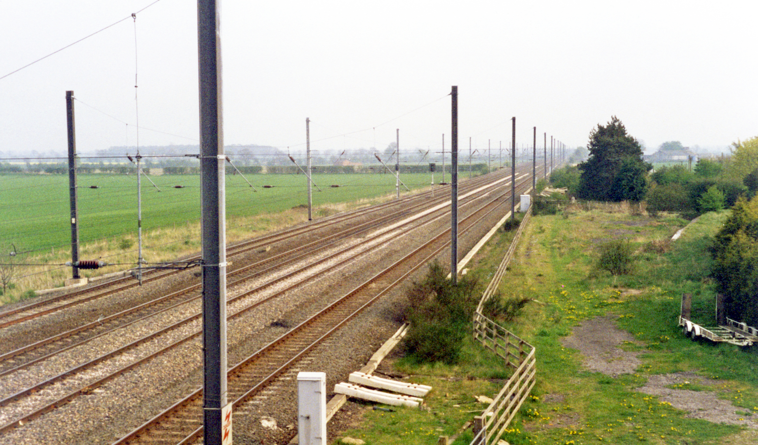 Site former Raskelf station, East Coast Main Line 1995. View SE, towards York and the South: ex-NER section of the ECML across the Plain of York, electrified 1990; the section between Alne and Pilmoor was only three-track until 6/60. Raskelf station was closed to passengers 5/5/8, to goods 18/8/64.